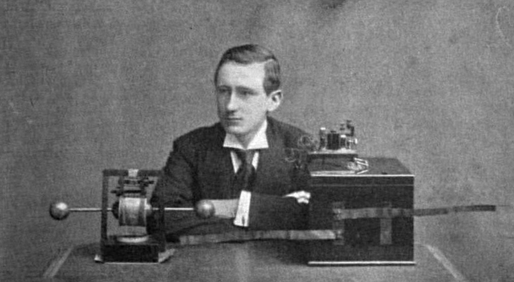 Publicity photo in a magazine of British-Italian radio entrepreneur Guglielmo Marconi with his early wireless transmitter and receiver.